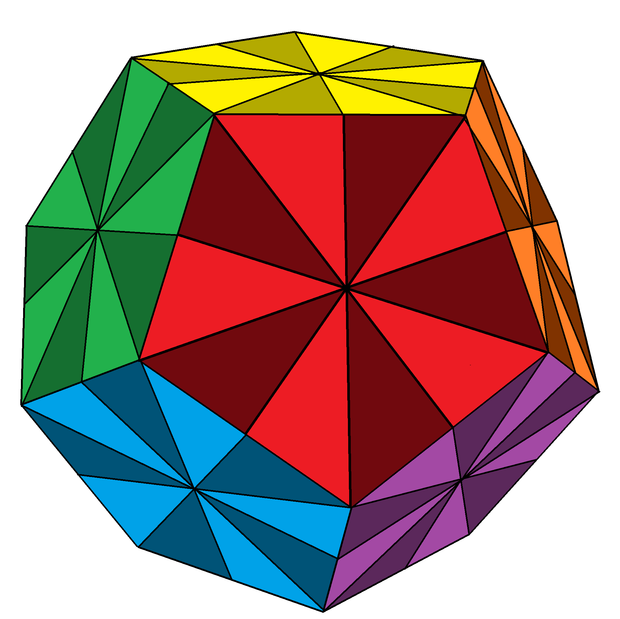 Disdyakis triacontahedron with dodecahedral envelope